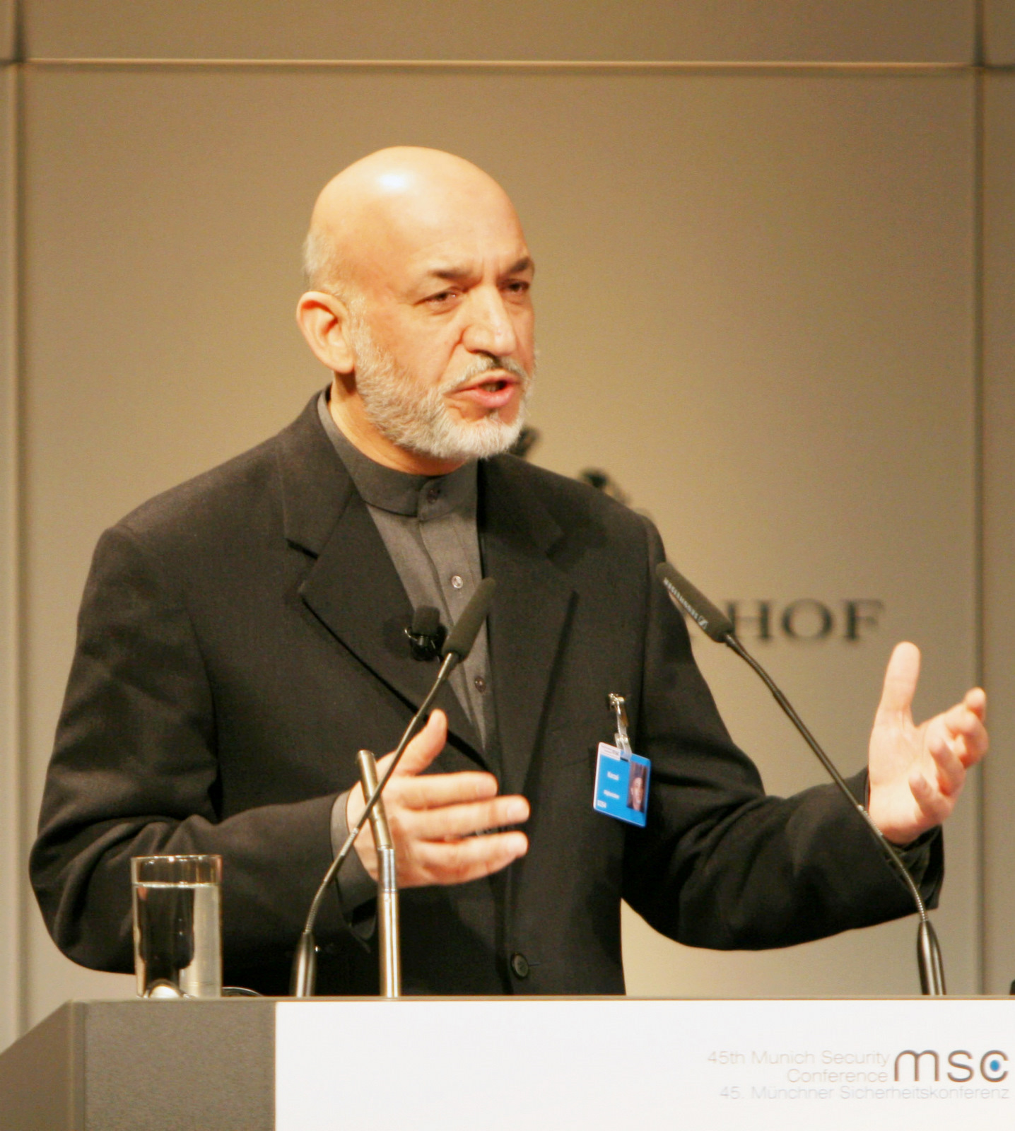 45th Munich Security Conference 2009: Hamid Karzai, President of the Islamic Repubic of Afghanistan, during his speech on Sunday morning.